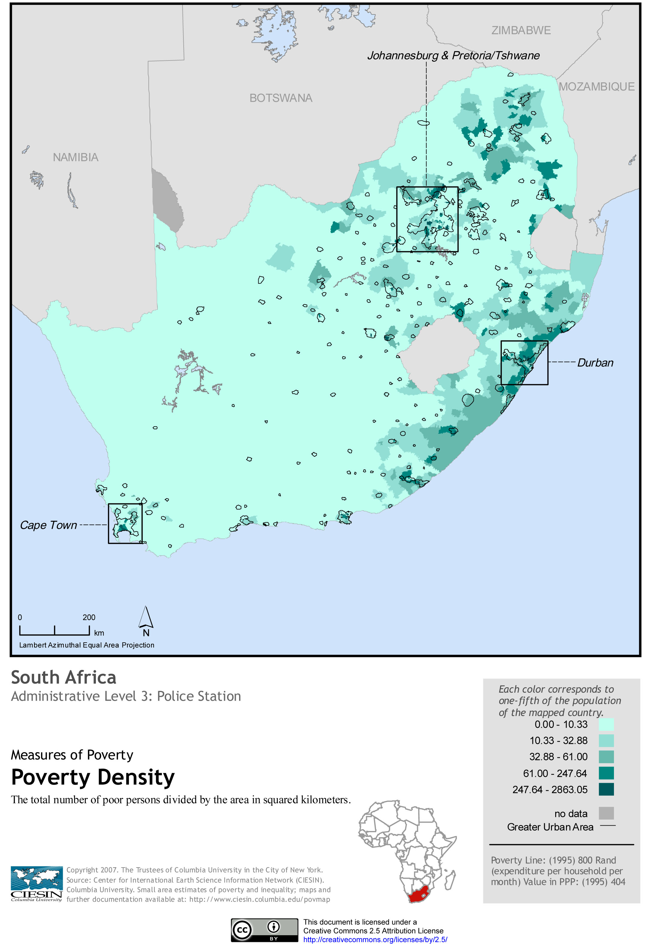 South Africa Poverty Density